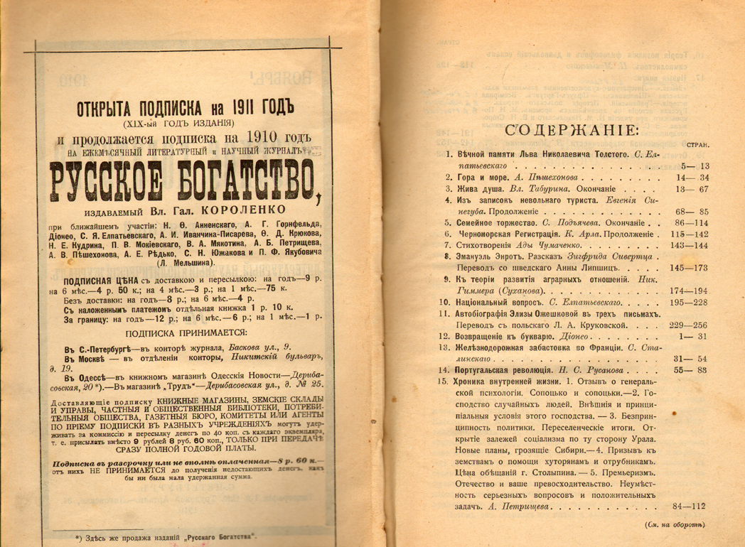 Russkoye Bogatstvo (Russian Wealth), 1910, № 11 (summary)